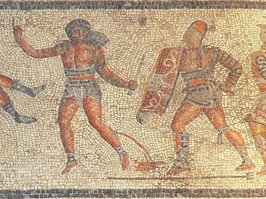 A disarmed retiarius surrenders to his secutor opponent in this scene from the Zliten mosaic.